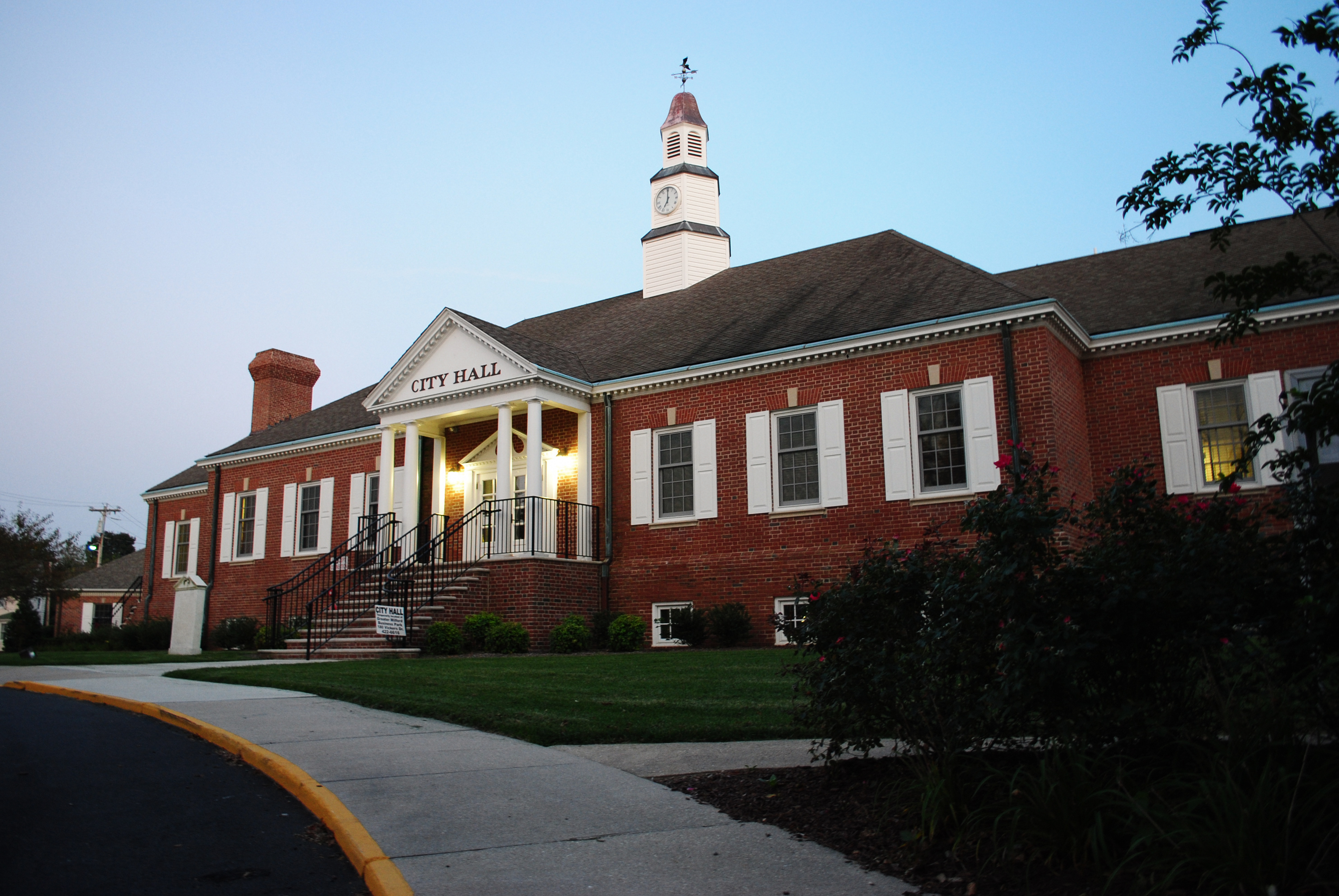 Photograph of city hall located in Milford, Delaware, U.S.A. Taken at dusk.